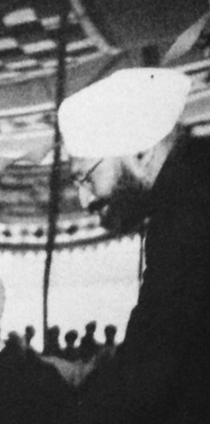 S. Kapoor Singh ICS is chief guest distributing prizes in a Khalsa College ,Amritsar event in 1964